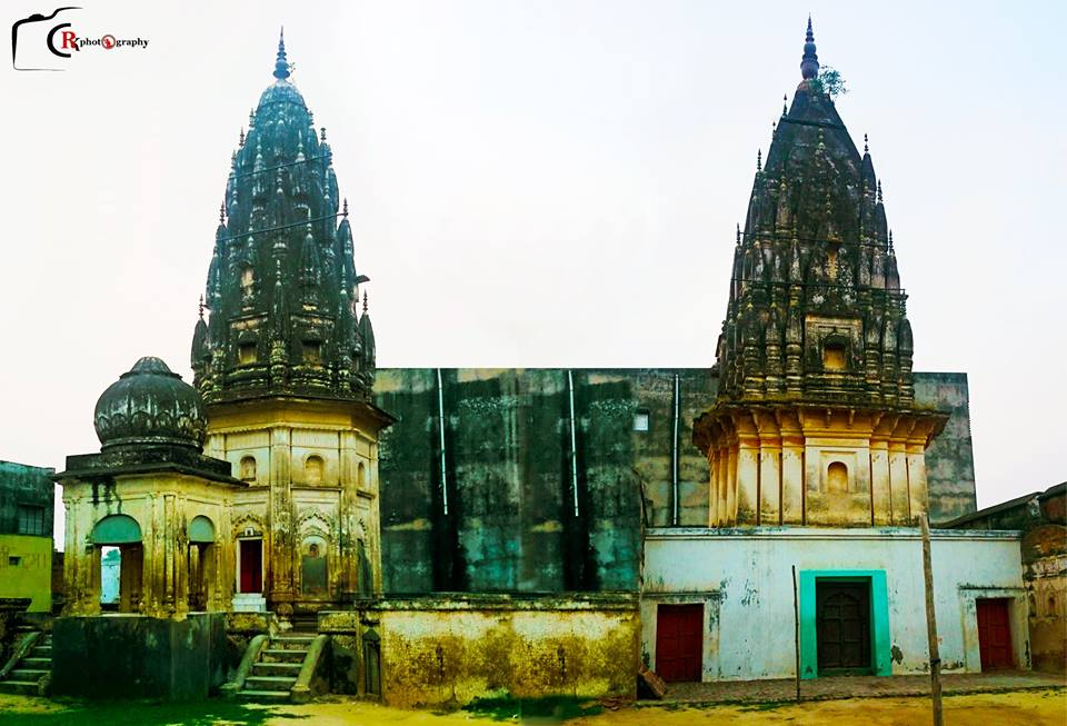 "Gopaleshwar(left) and Thakurdwara(right) temple in Bhagwant Nagar."